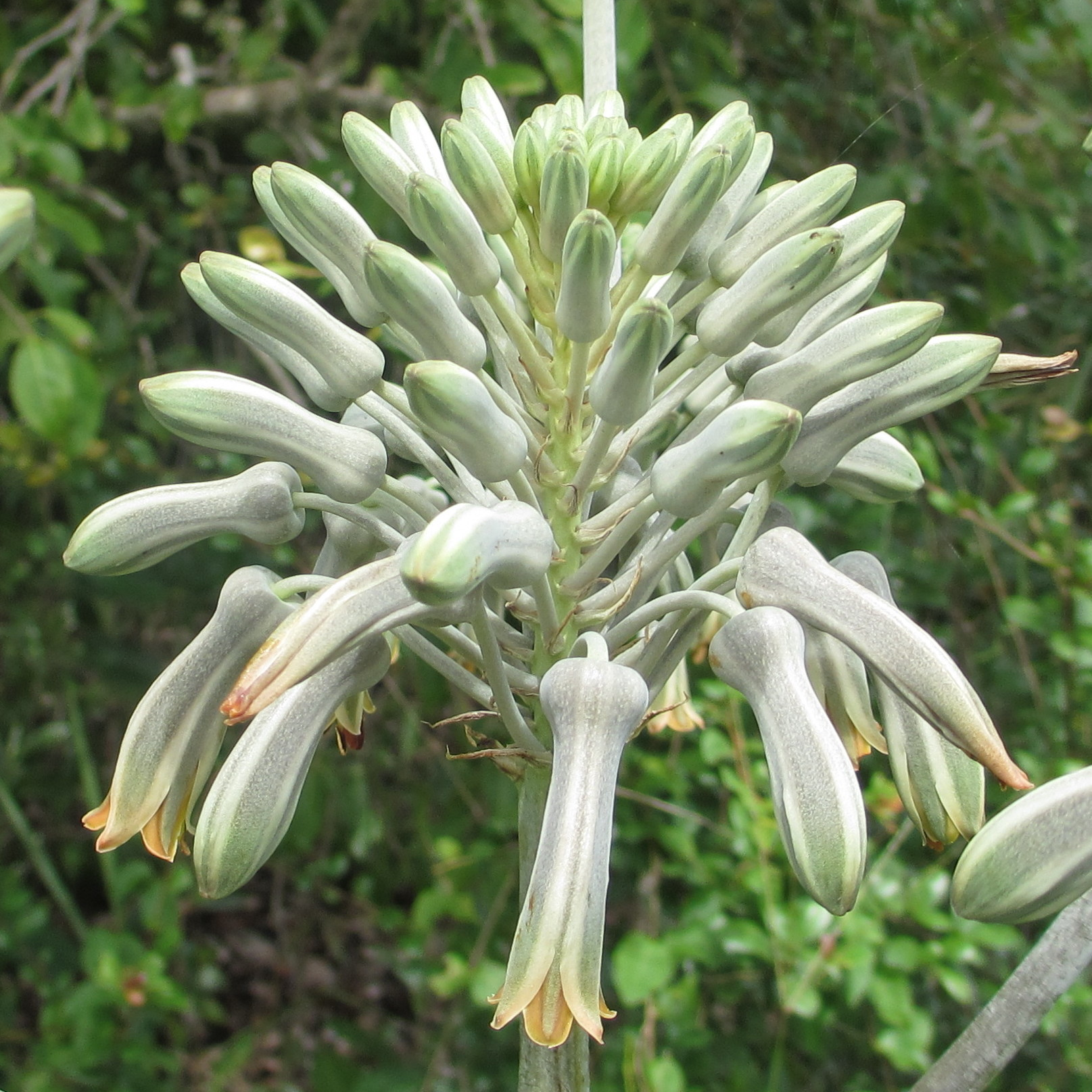 Aloe menyharthii - raceme